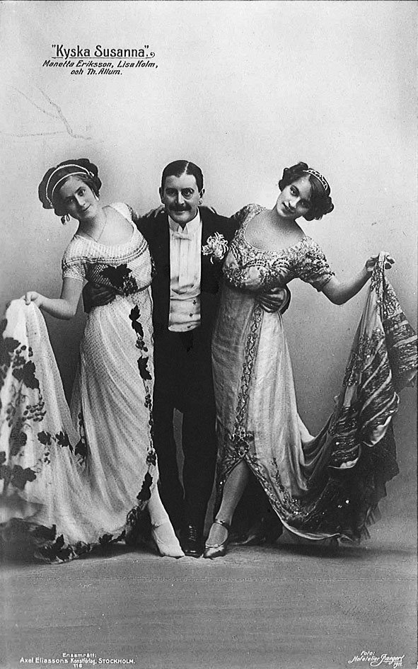 Swedish actresses Manetta Ryberg (born Eriksson, 1888-1978) and Lisa Holm (1888-1976) surrounding Norwegian actor Thorleif Allum in a Swedish performance of the operetta Kyska Susanna (Die keusche Susanne).